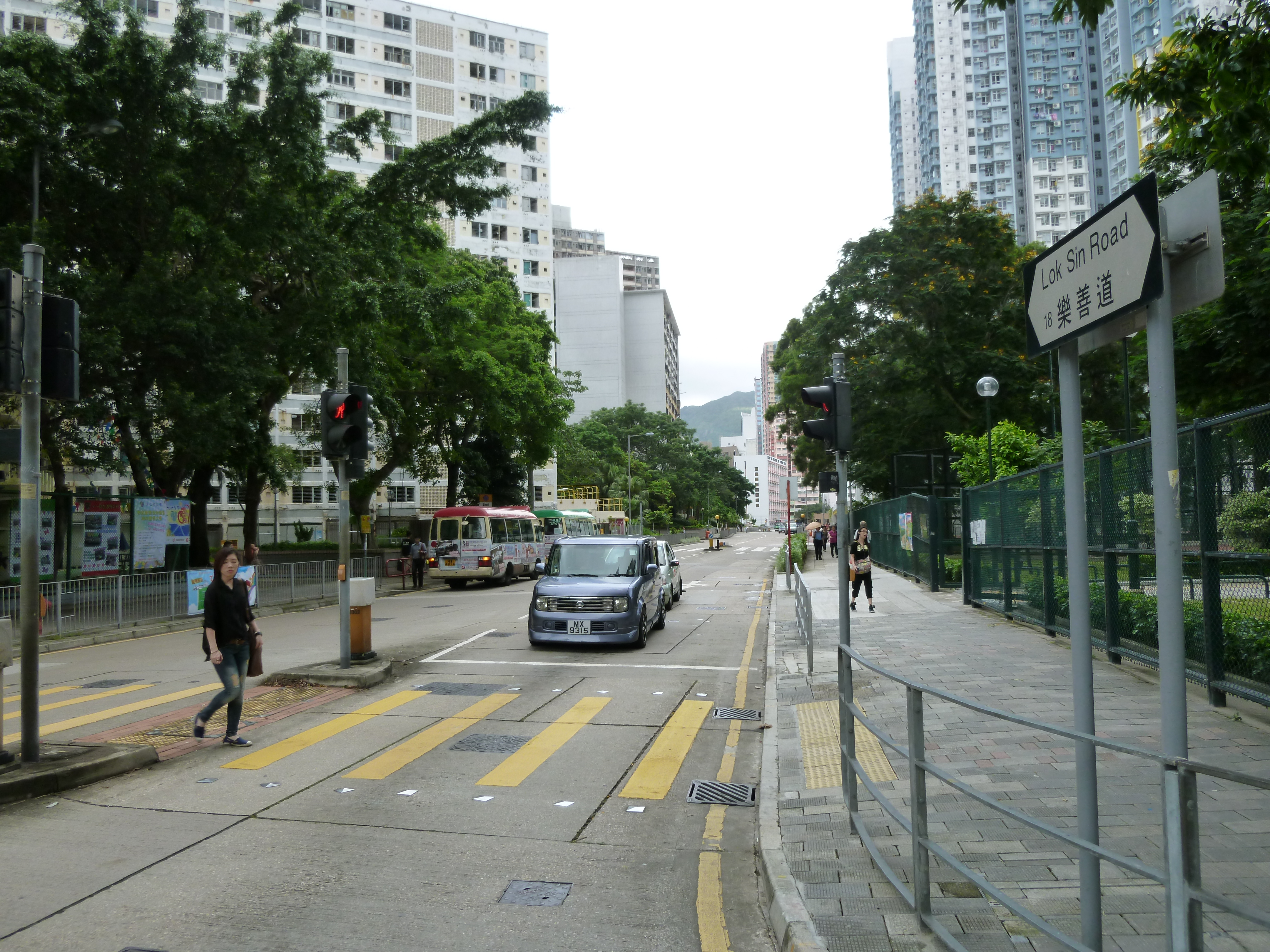 Lok Sin Road (Kowloon City, Hong Kong) 中文（香港）: 樂善道 (香港九龍城)